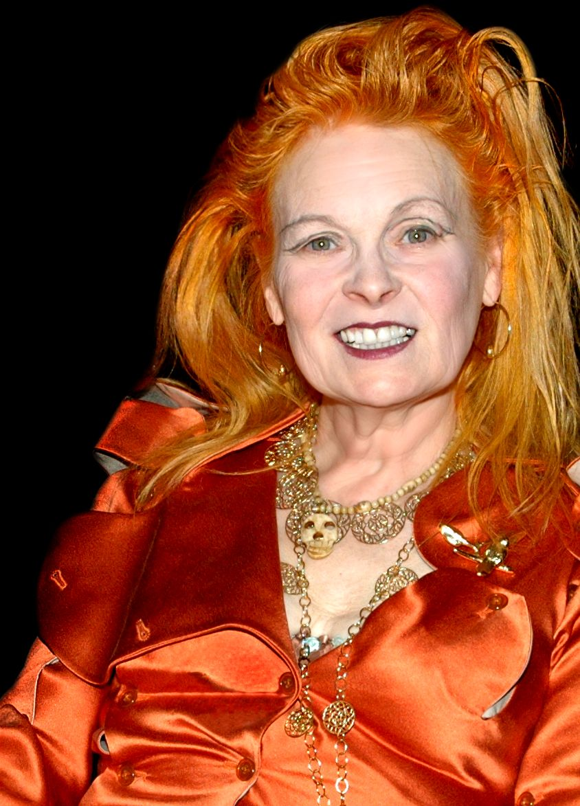 Vivienne Westwood by Mattia Passeri in 2008